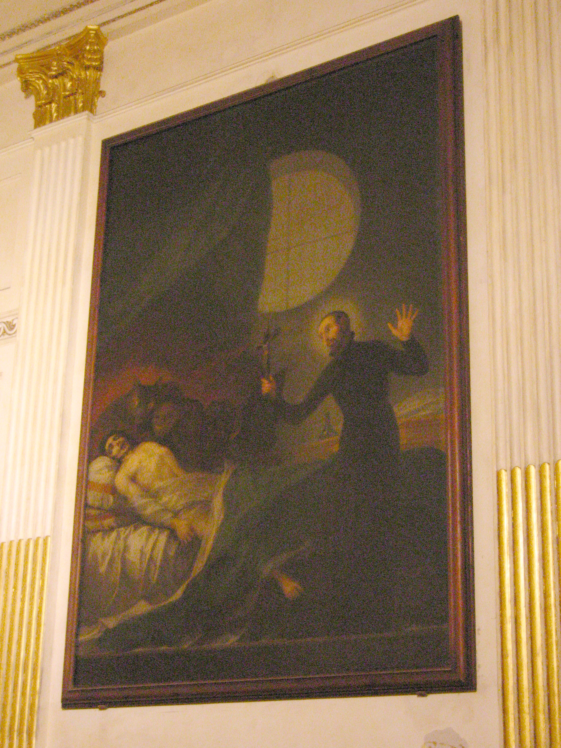 A painting by Goya, of Father General, Saint Francis Borgia, SJ performing an exorcism.